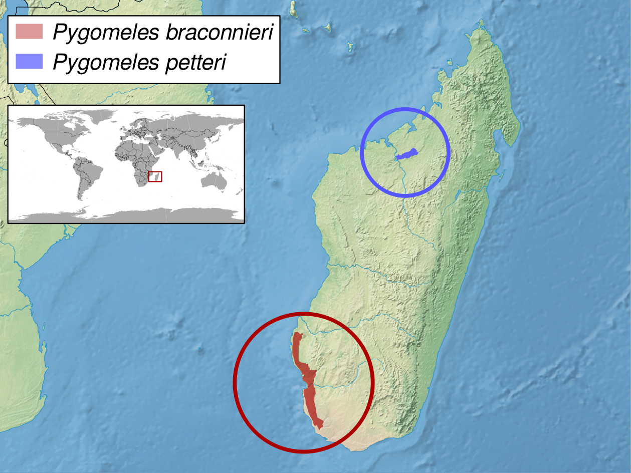 geographic distribution of Pygomeles braconnieri and Pygomeles petteri